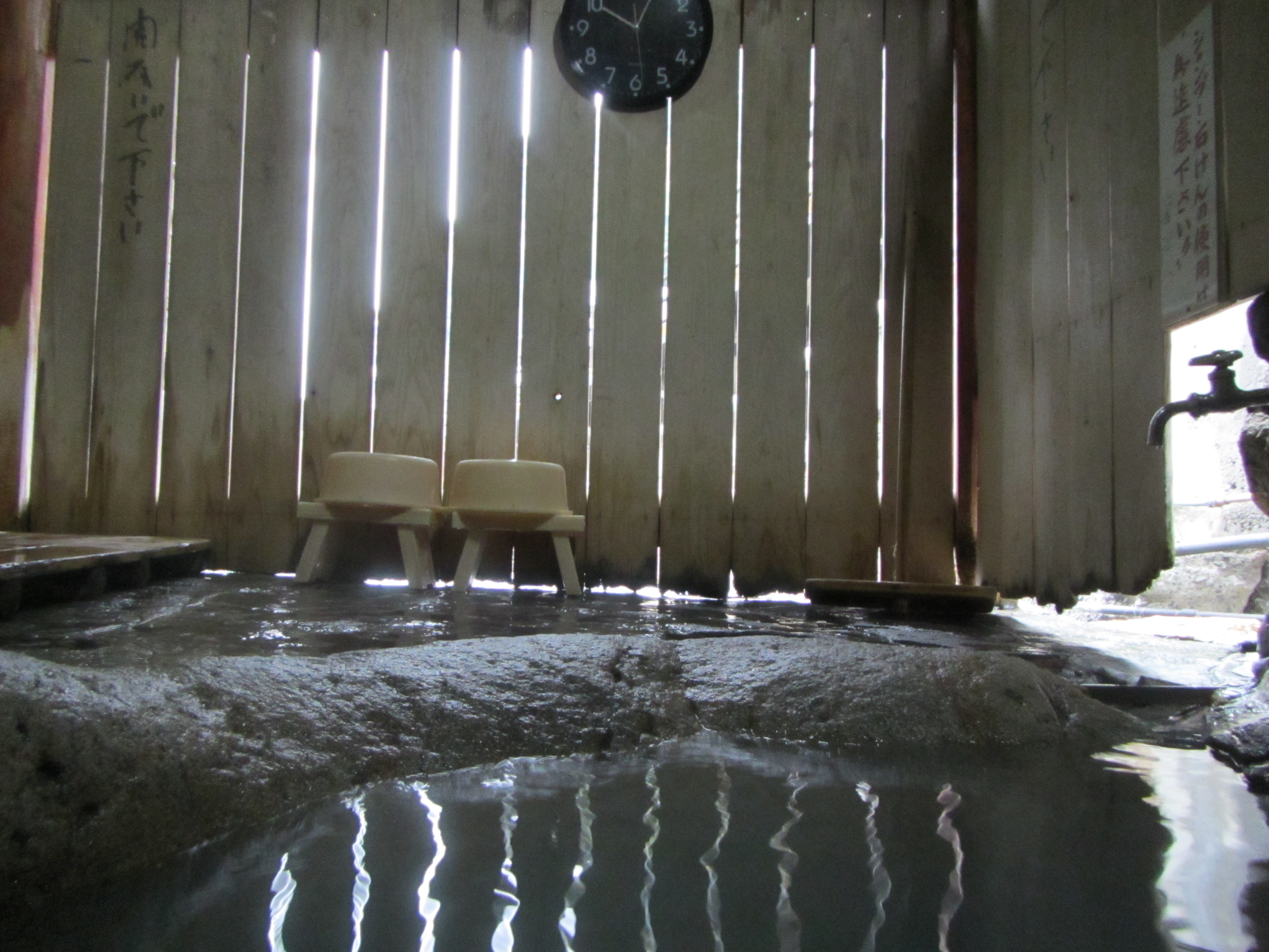 Kumano Kodo World heritage Yunomine Onsen Tsuboyu 湯の峰温泉 つぼ湯